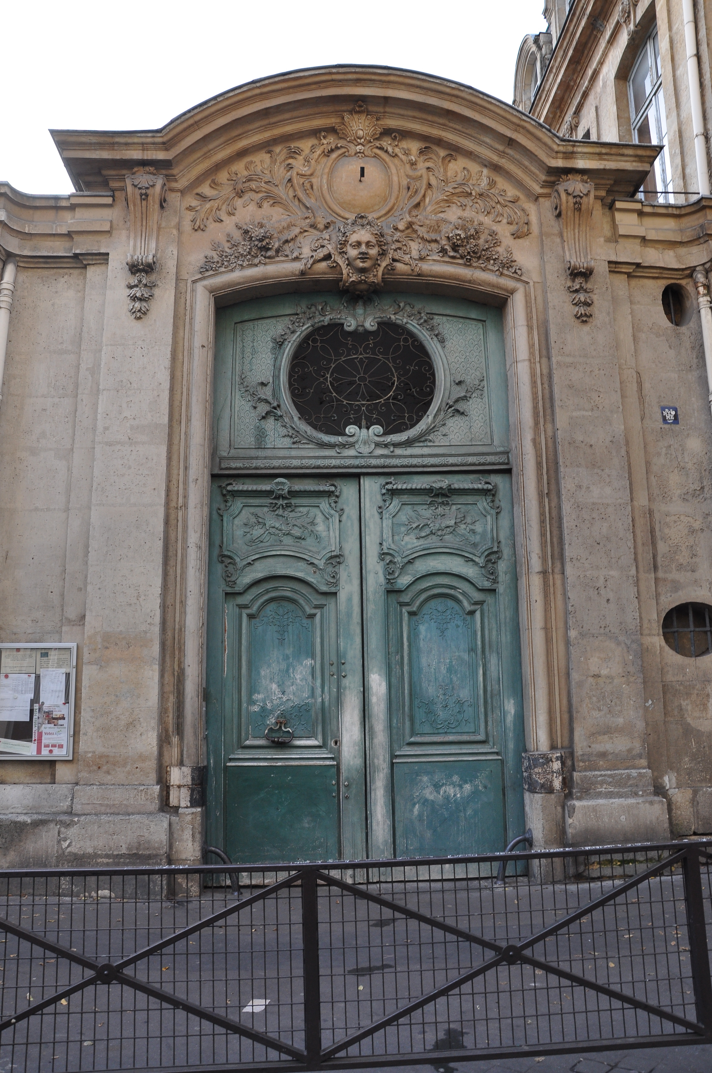 Entrance gate of the Collège Pierre-Jean de Béranger located in 5 and 5bis rue Béranger in the 3rd district of Paris. Built in 1720 and registered on historic monuments in 1987.